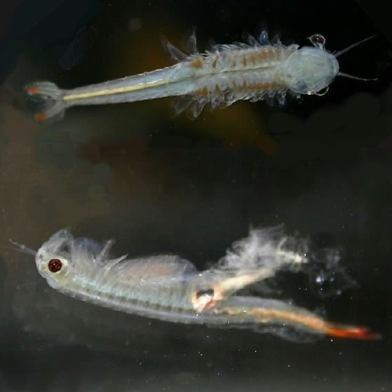 Photo of brineshrimp